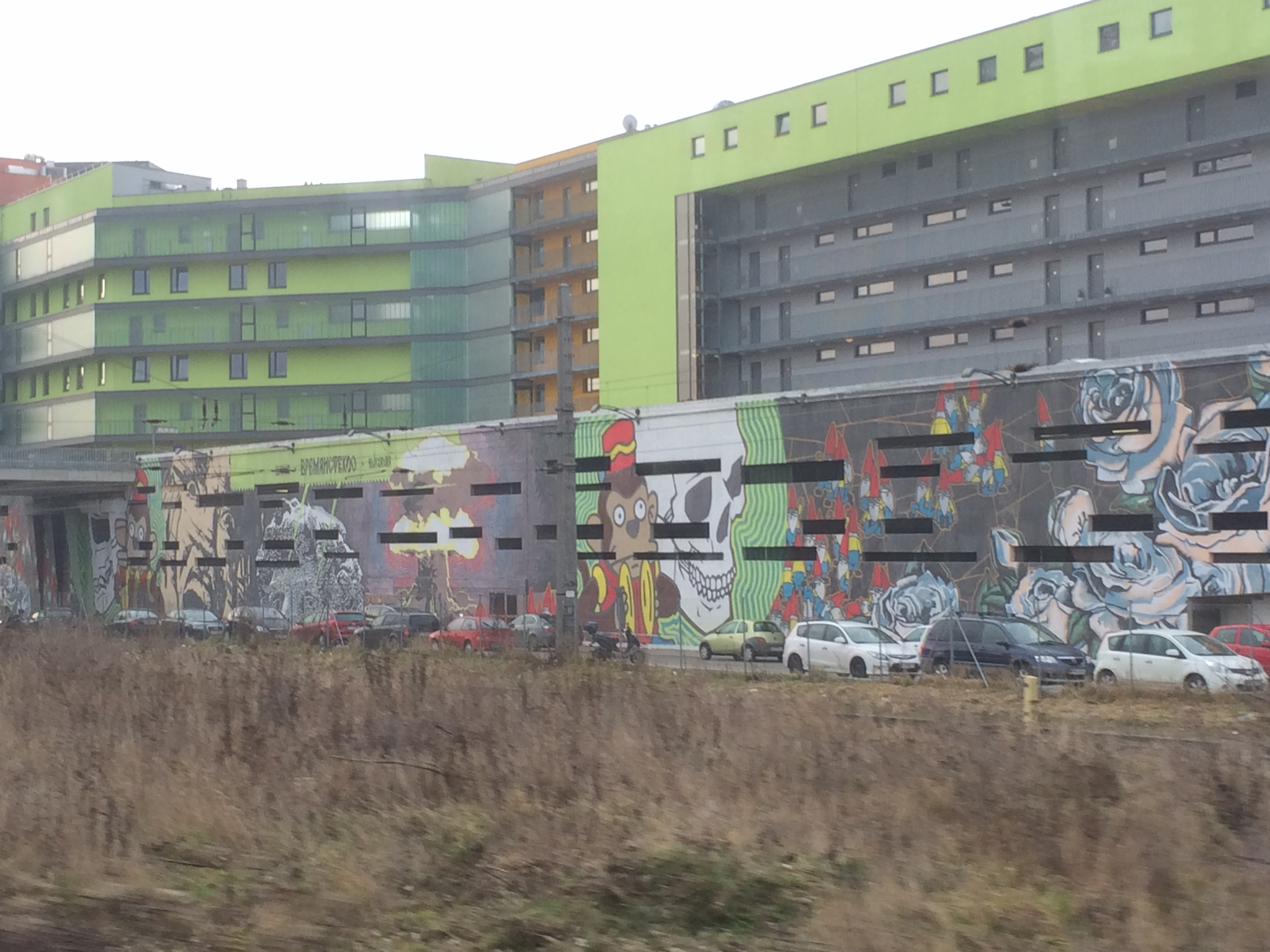 Graffitistraße - A street in Meidling, Vienna's 12th district